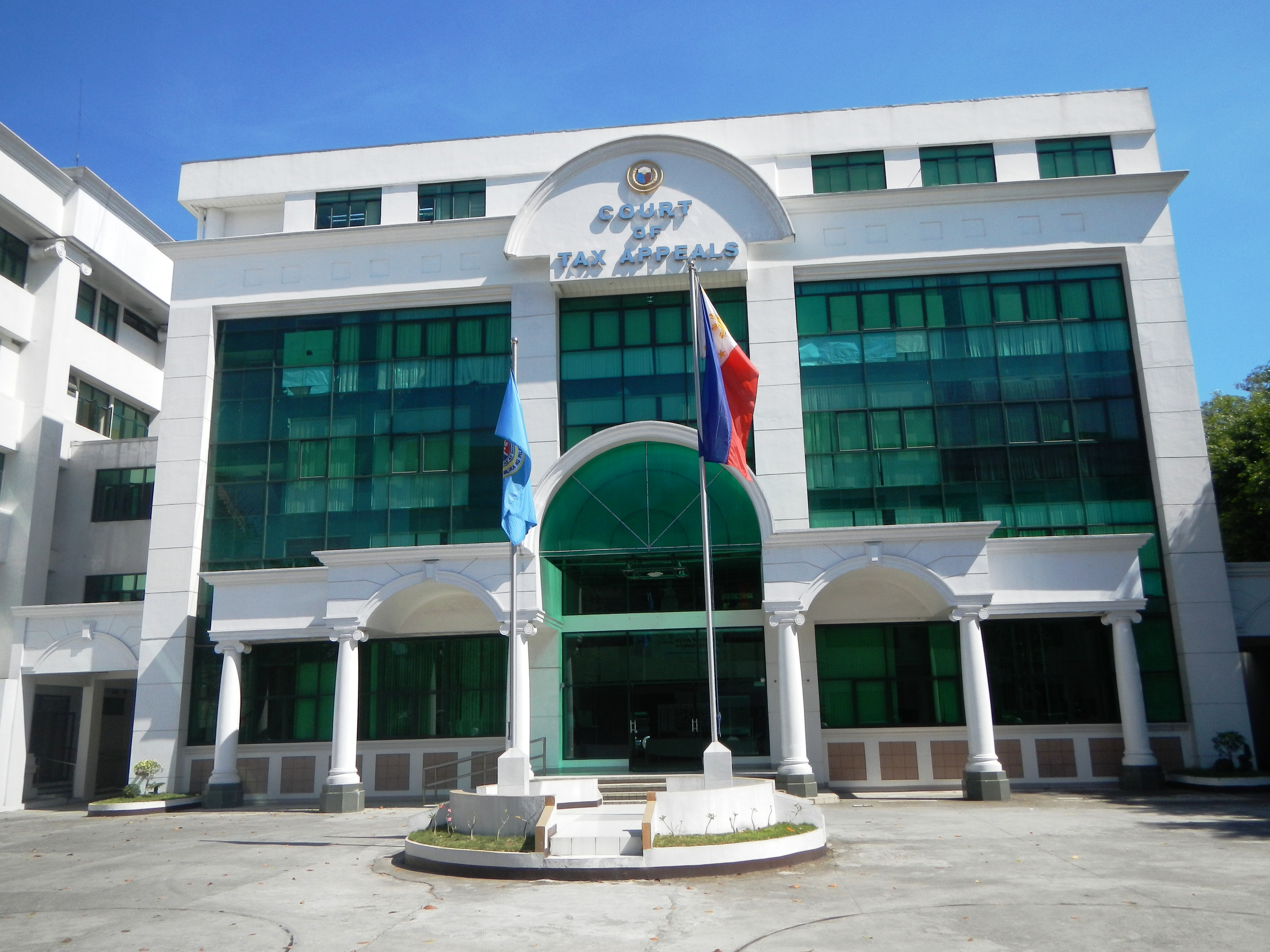 Court of Tax Appeals of the Philippines located at Agham Road, National Government Center, Diliman, Quezon City in Metro Manila.